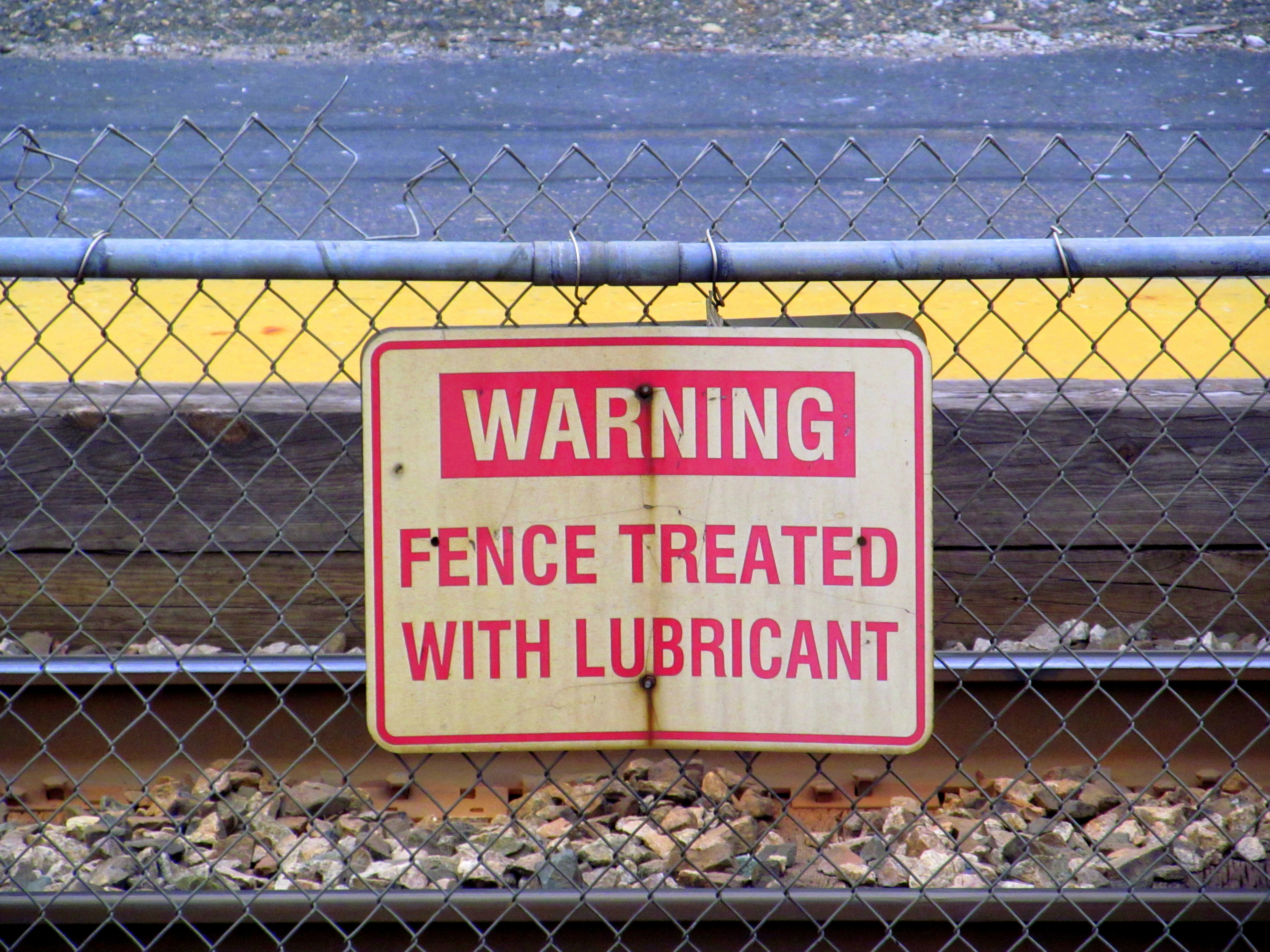 The fence between the tracks at Hyde Park is lubricated to deter passengers from crossing the tracks. Trains reach speeds of up to 120mph through the station, so passengers are to use the footbridge for their own safety.